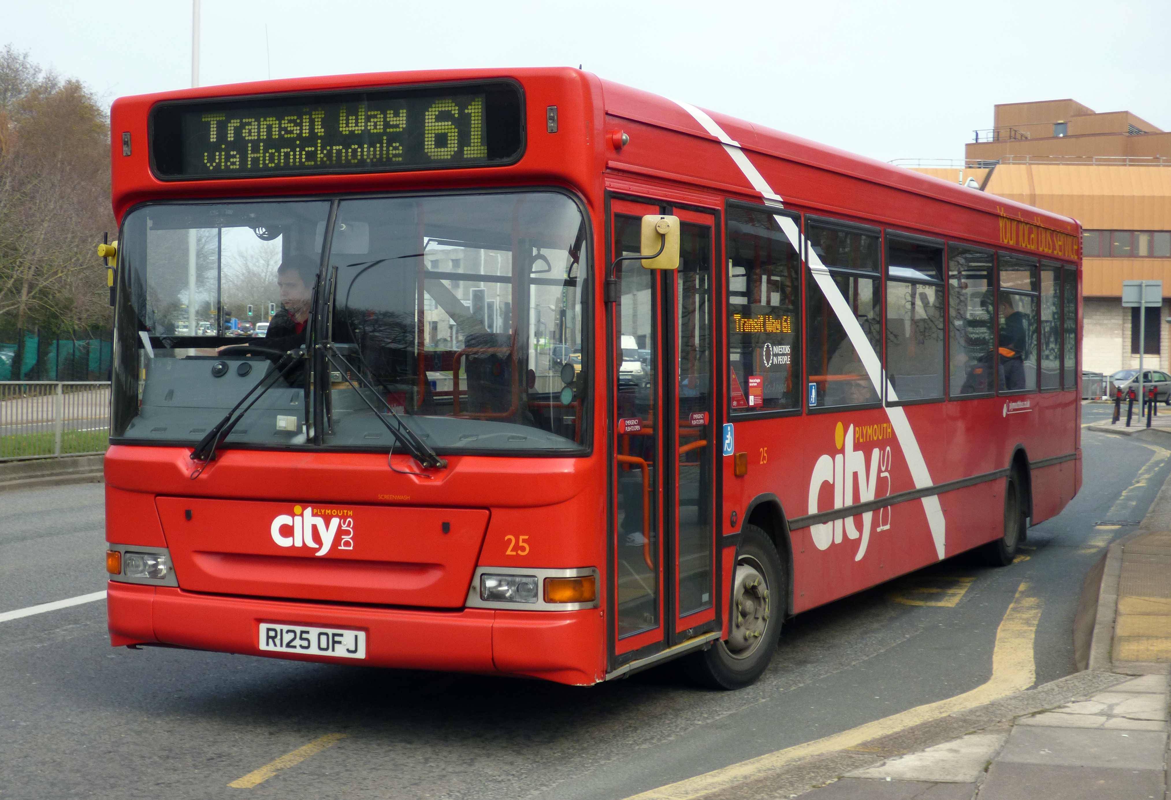 25 R125OFJ Plymouth Citybus Ltd Dennis Dart SLF Plaxton Pointer 2 B39F Plymouth Citybus (swoop) L1000607 17 March 2015 Western Approach Plymouth Route-61